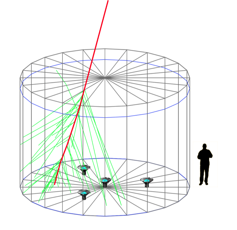 A schematic of a HAWC Tank